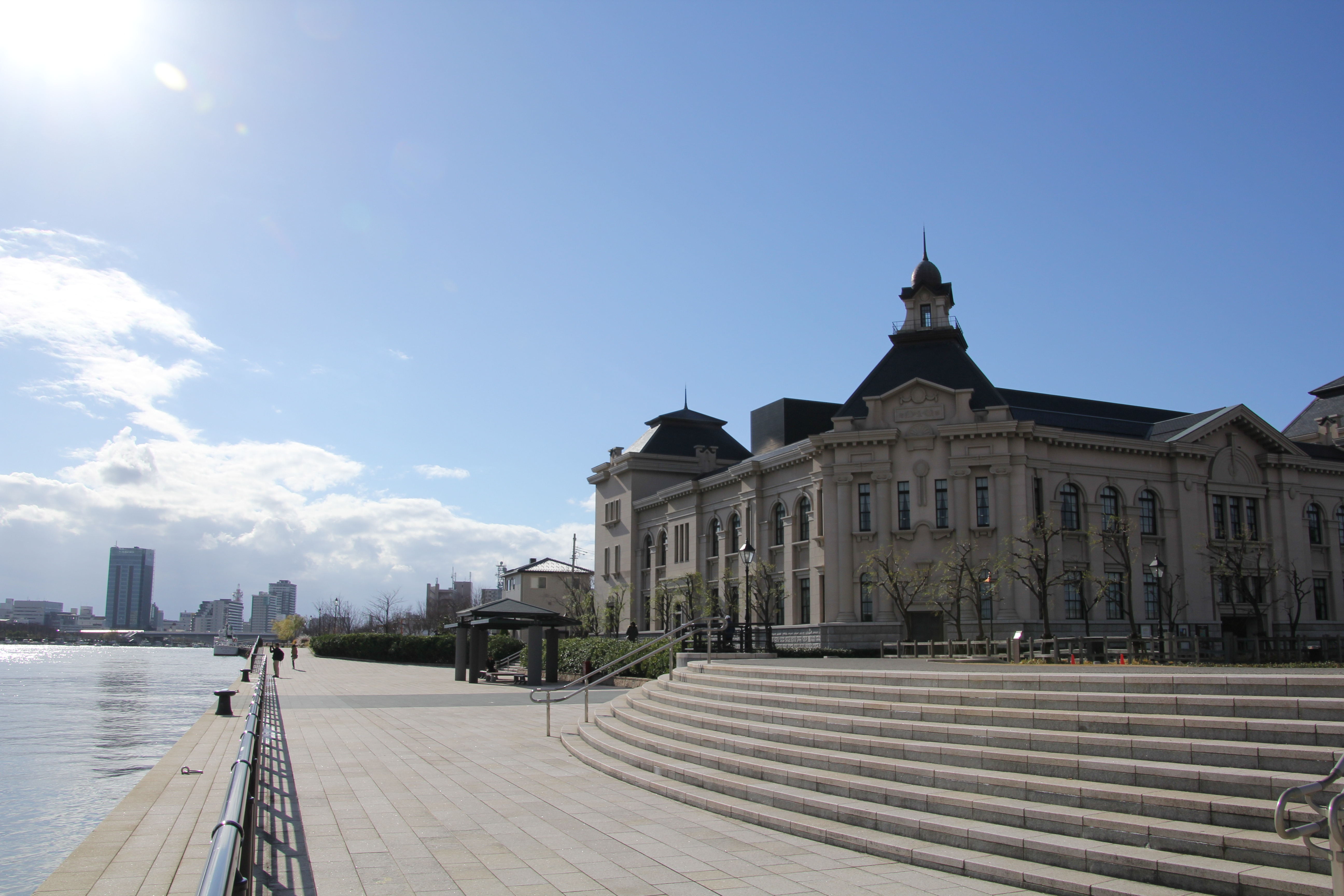 A image about Niigata City History Museum (Nicknamed Minatopia) that is provided on Niigata Open Data.